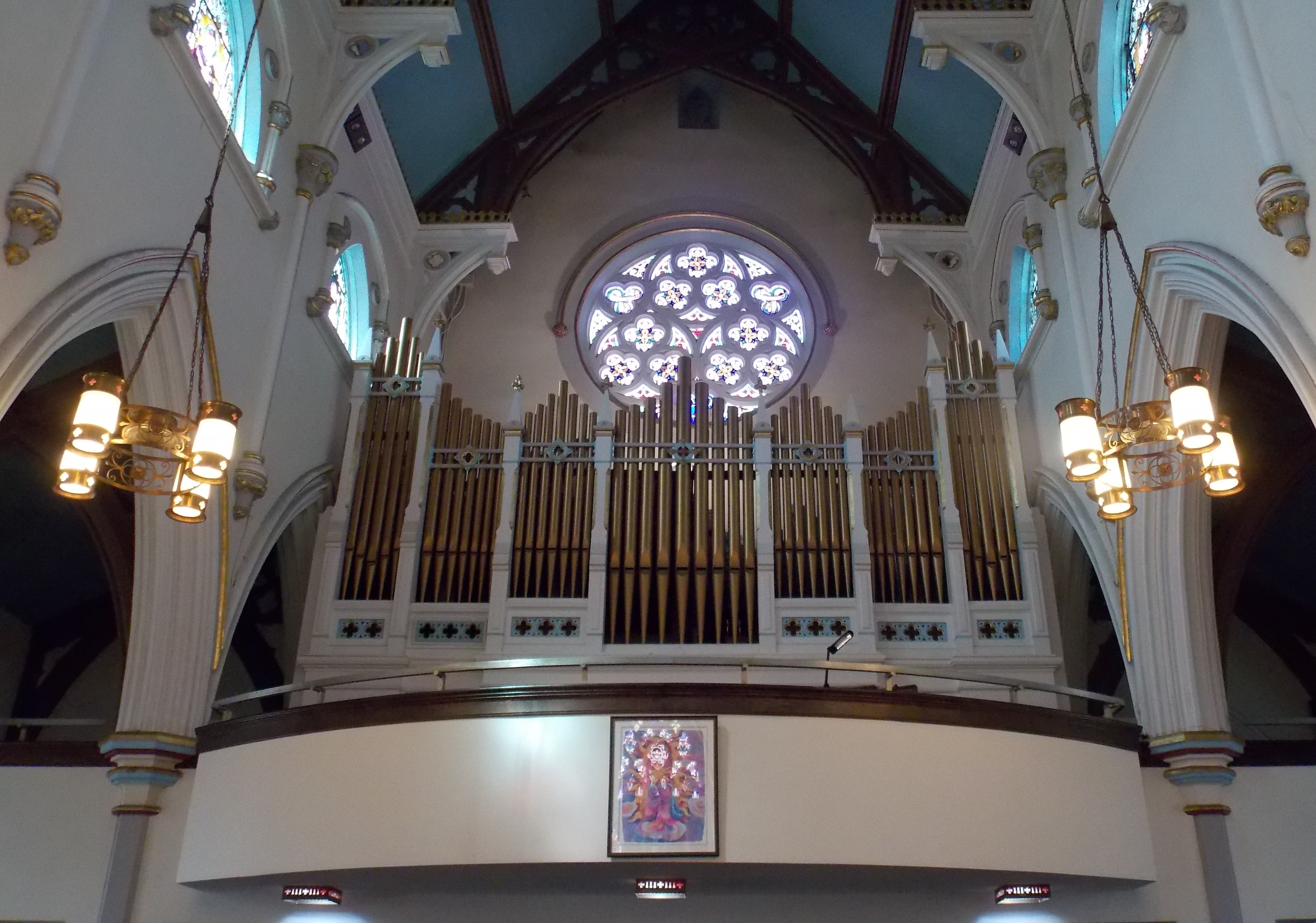 The interior of the Cathedral of the Immaculate Conception in Camden, New Jersey.